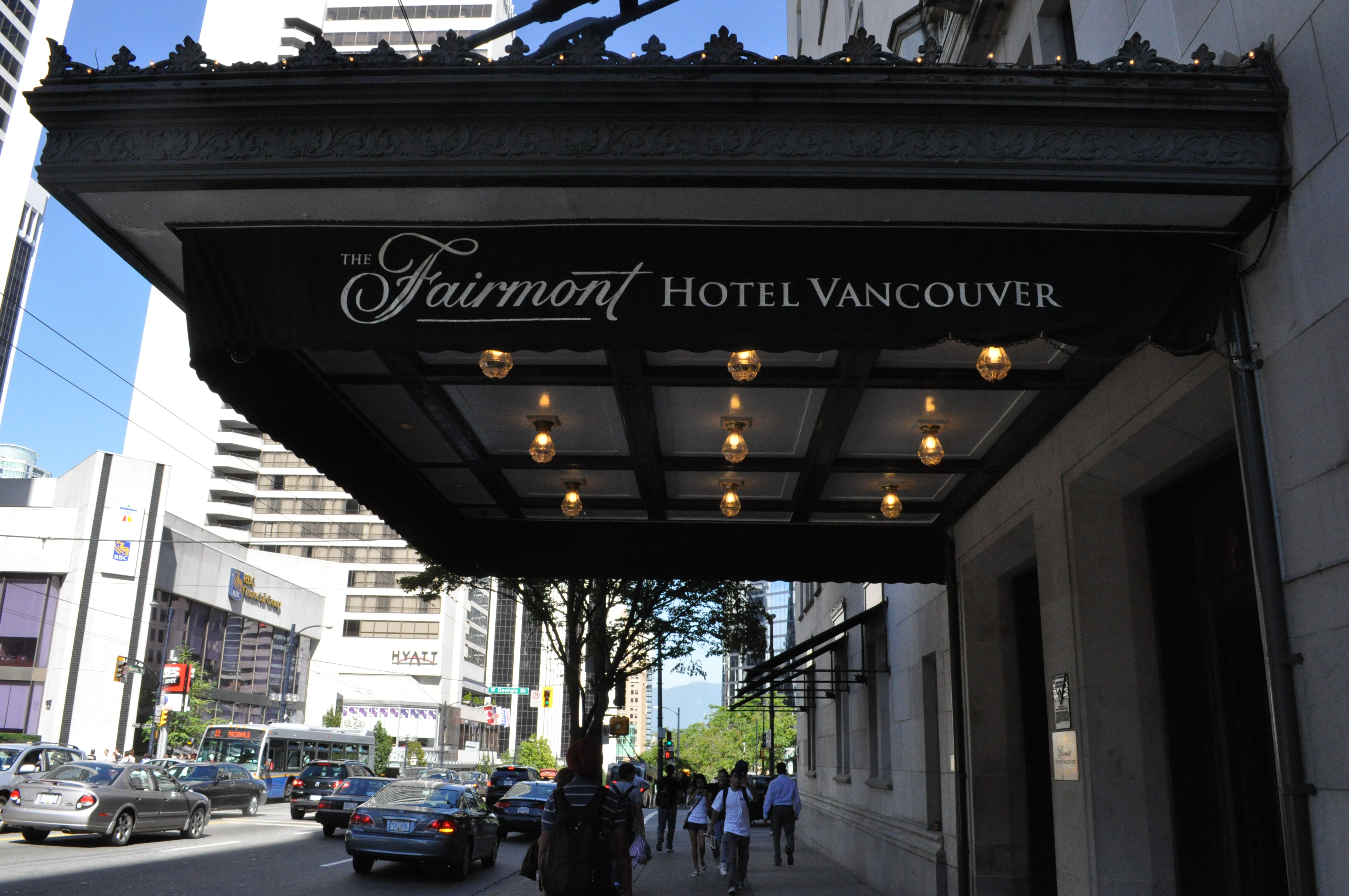 Canopy over door on Burrard Street, Hotel Vancouver (now Fairmont Hotel Vancouver), Vancouver, BC.